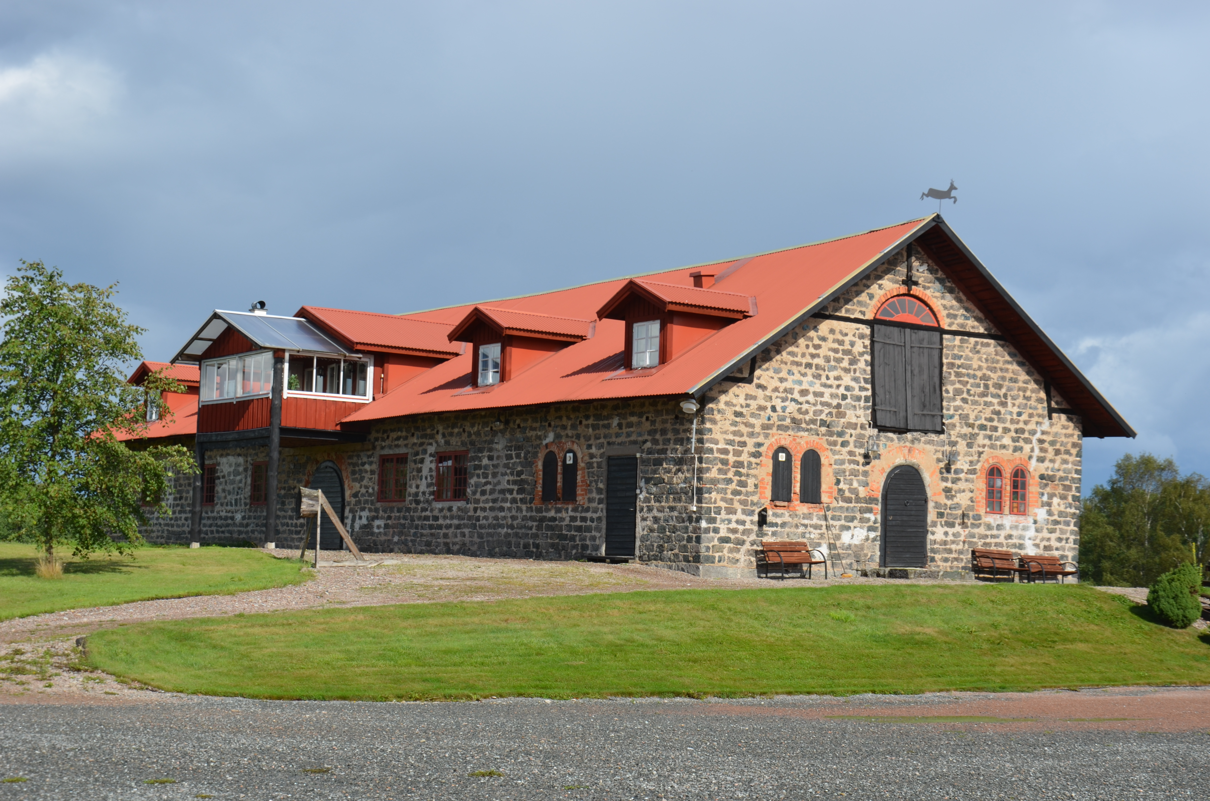 Snytsbo gård, Snytsbo, Norbergs kommun. Conference centre of Karl Hedin AB